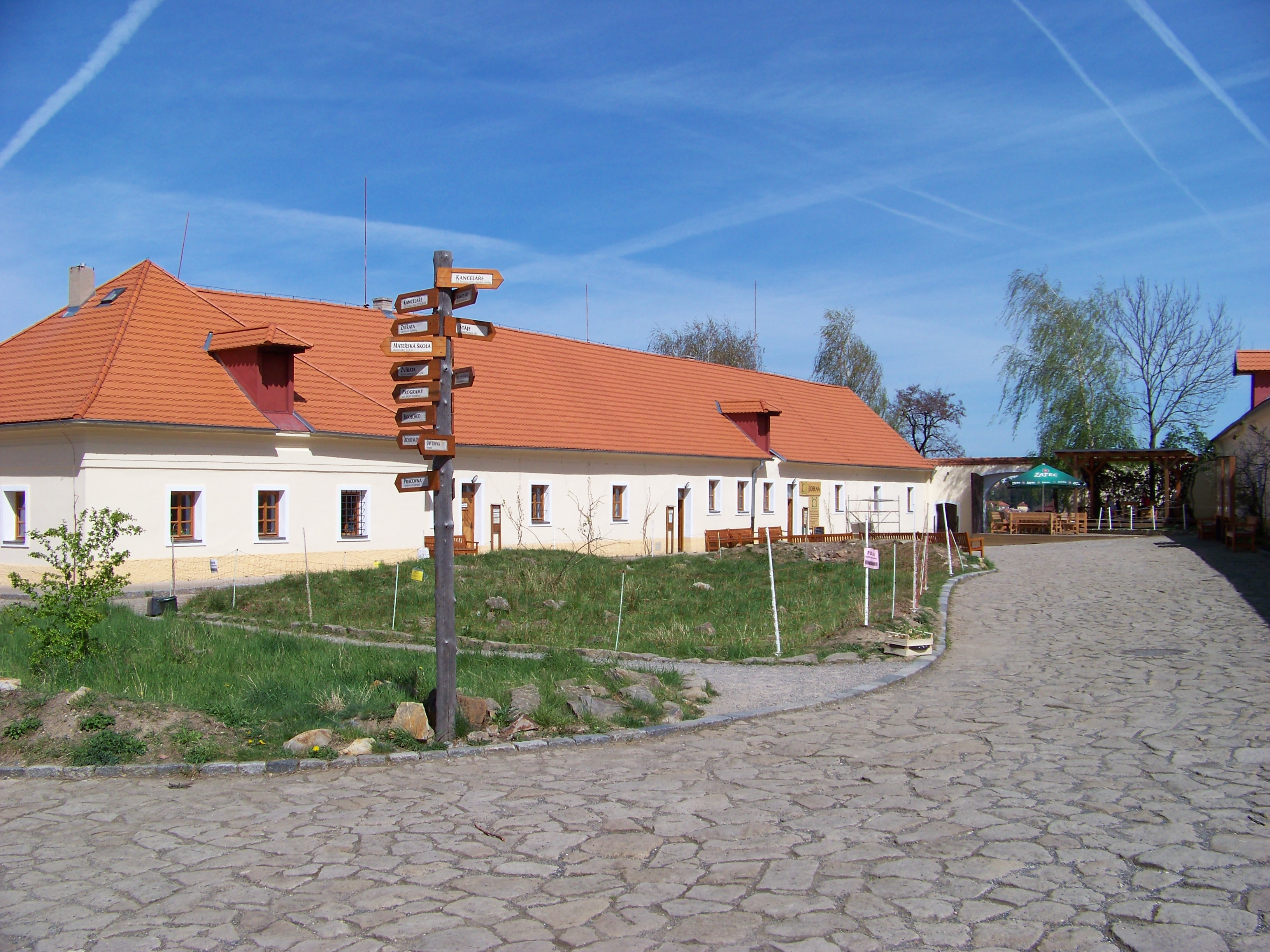 Prague-Hostivař, the Czech Republic. Toulec Homestead, the courtyard.